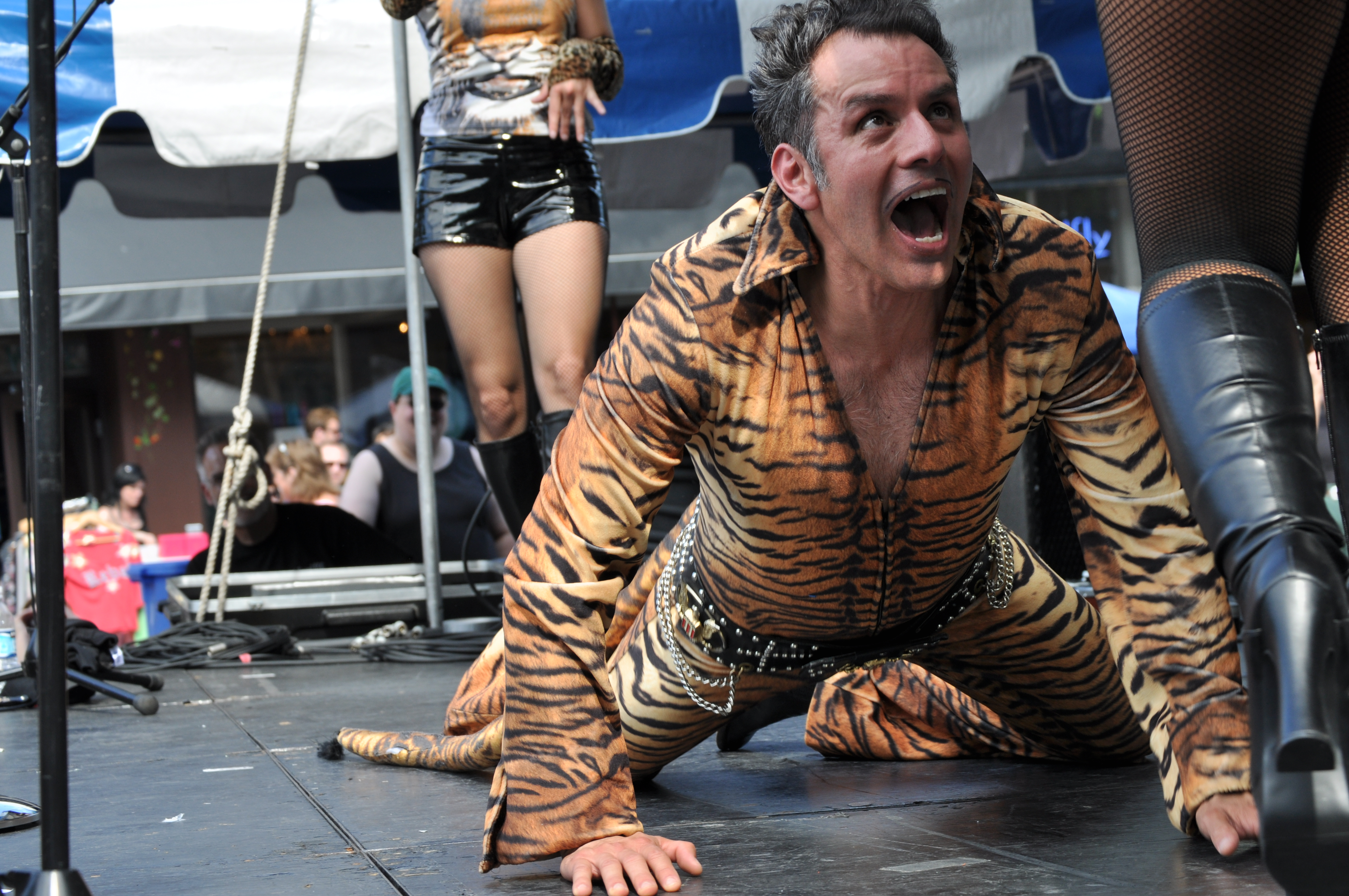 El Vez performing at the Ballard Seafood Festival, Ballard, Seattle, Washington.